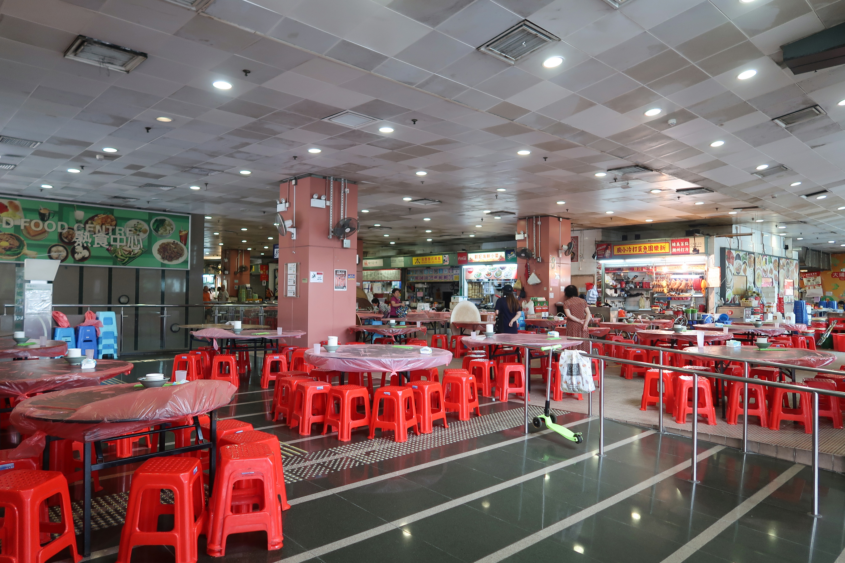 Tai Po Complex Level 2 Food Centre